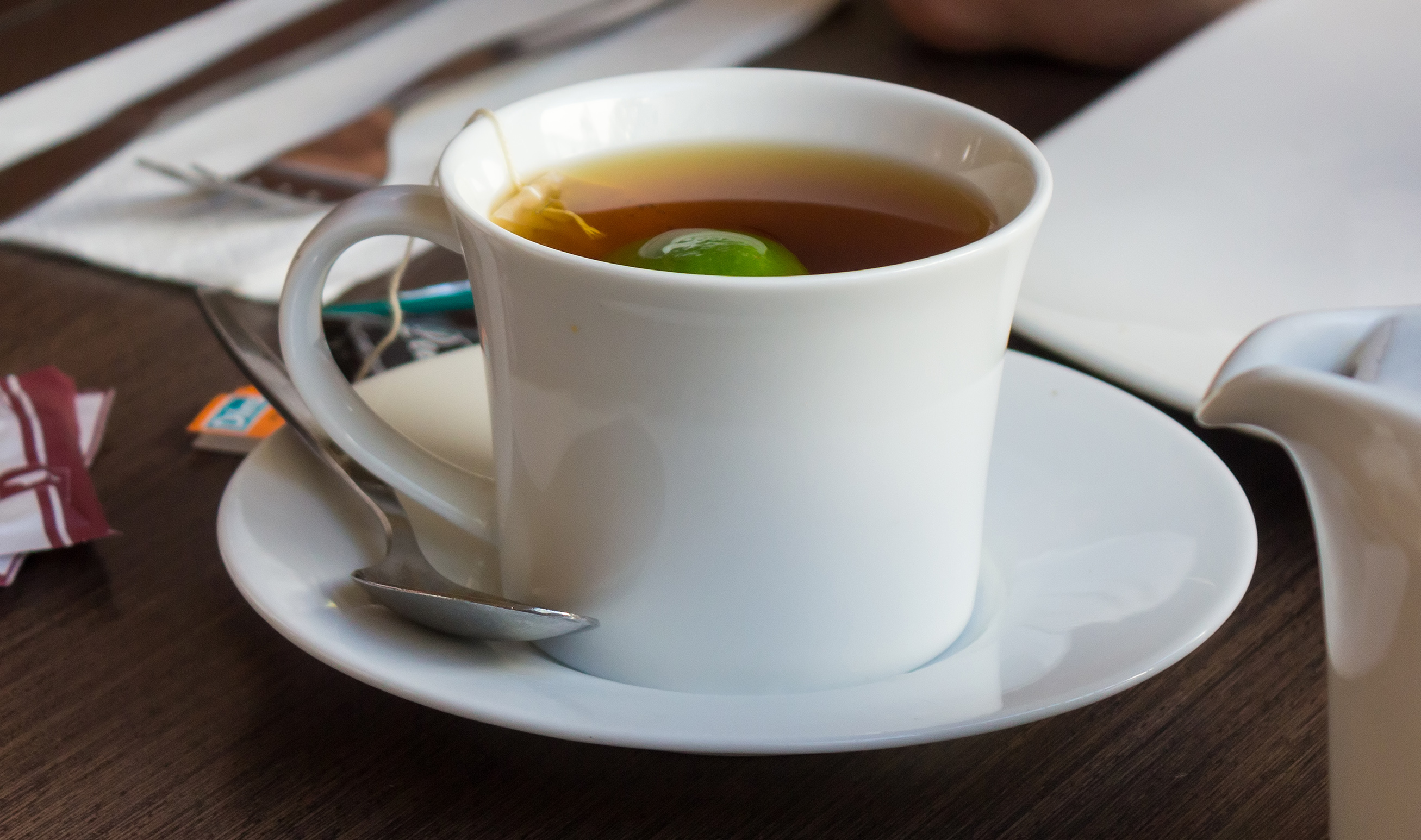 Jasmine tea at Pizza Hut Sudirman, Yogyakarta, 2014-08-12